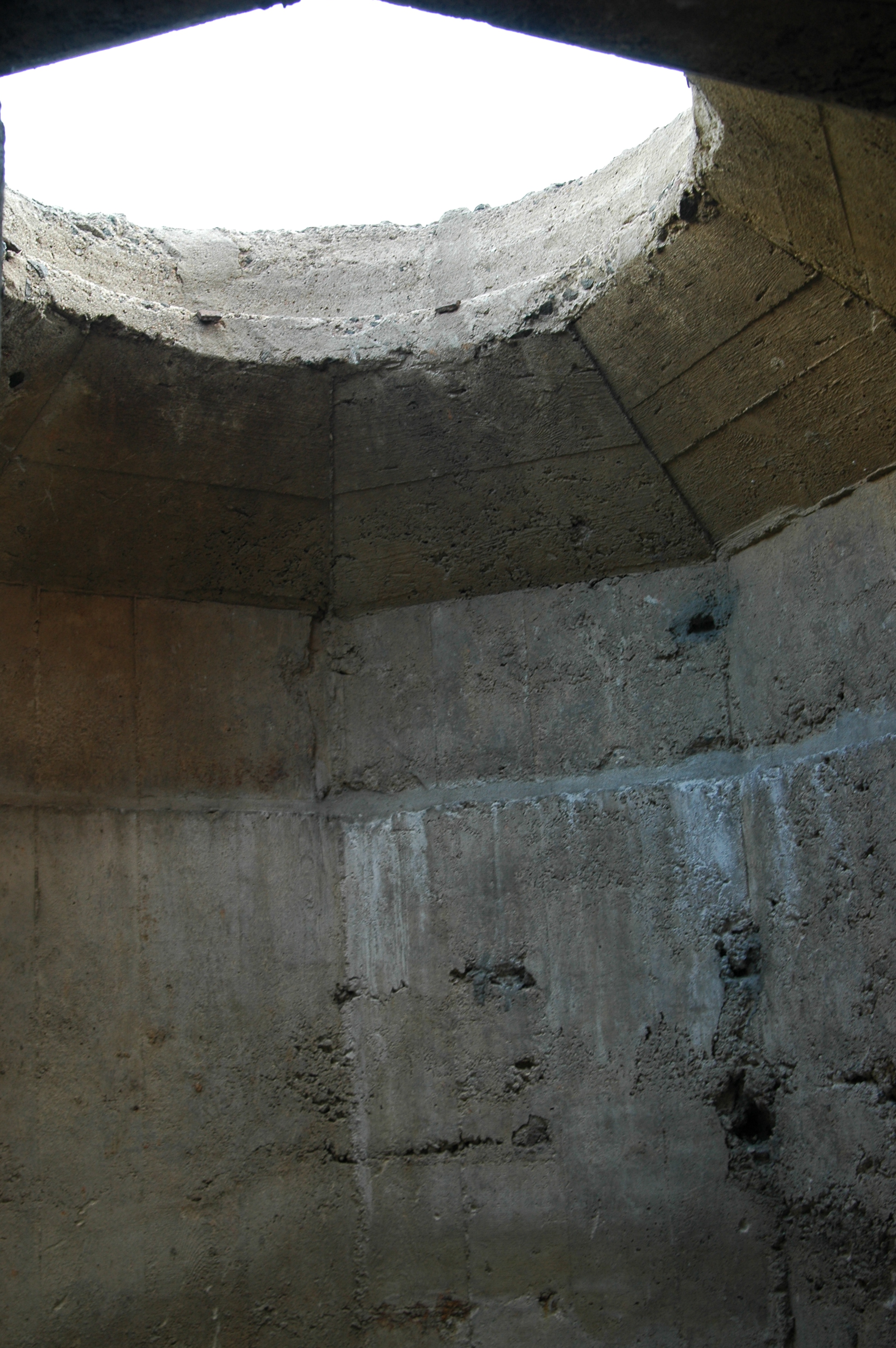 Made on a summer day in Warsaw's Warsaw Rising Museum; Tobruk-type pillbox as seen in the Warsaw Rising Museum. Refer to Warsaw_MPW_Tobruk_00.jpg for more details. internal view from the staircase towards the cupola (the MG cupola itself is missing)